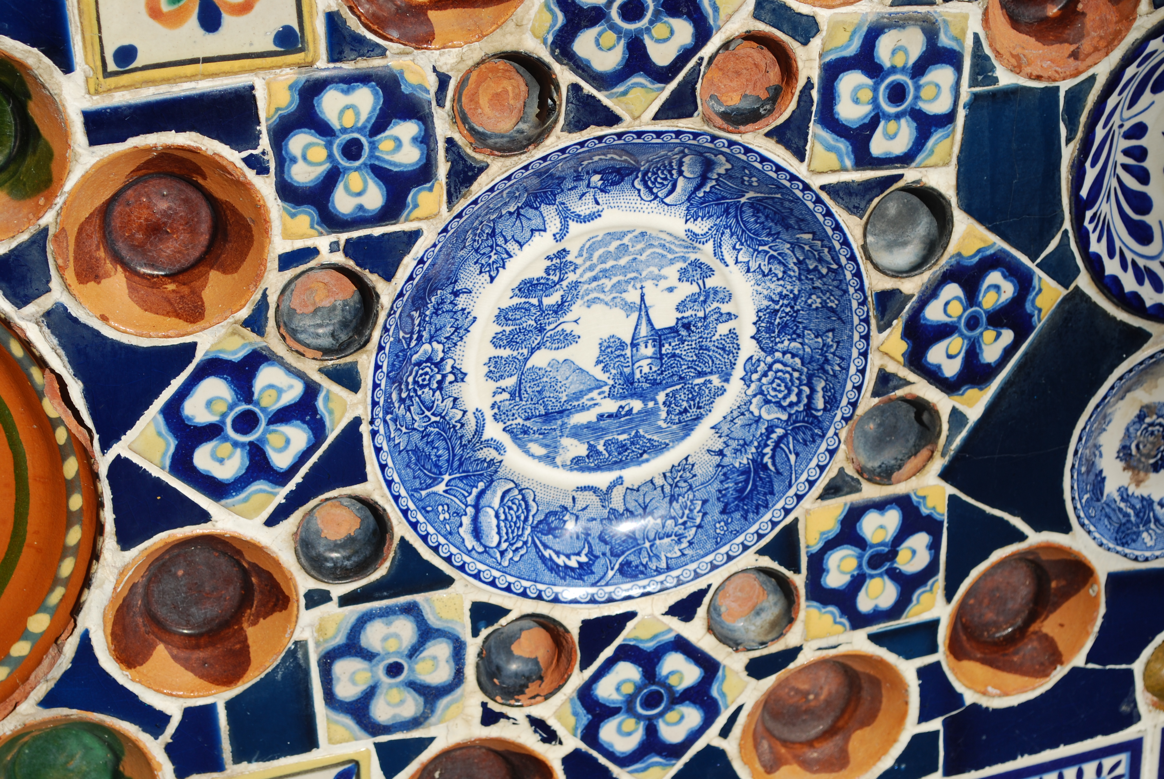 closeup of one of the Talavera plates surrounded by tiles on the courtyard fountain of the Chautla Hacienda in San Salvador el Verde, Puebla, Mexico